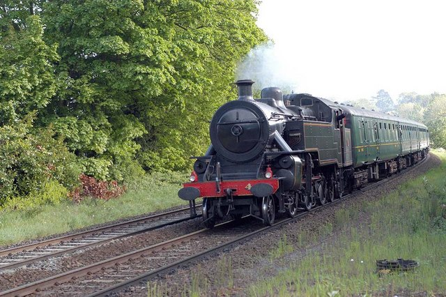 Approaching Steam Train RPSI preserved steam train and coaches approaching Lambeg Station